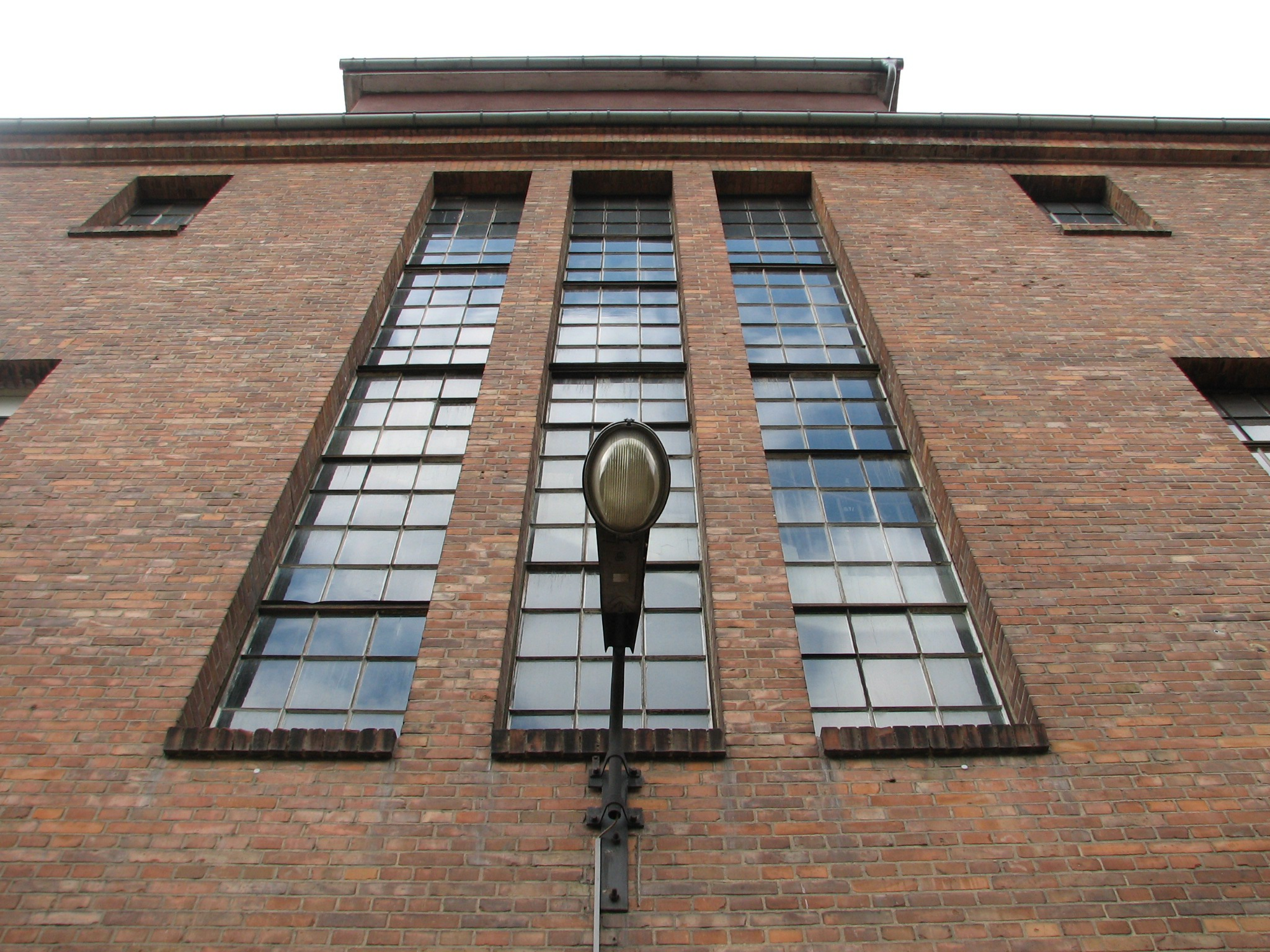 Building 15